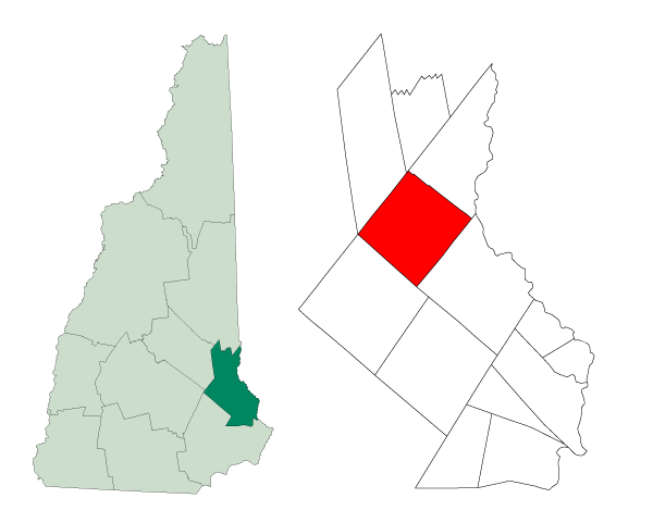 Created from Boundary/Border Outline Files of the Libre Map Project which held a BY-SA creative commons license. Data origionally from 2000 US Census boundary data.